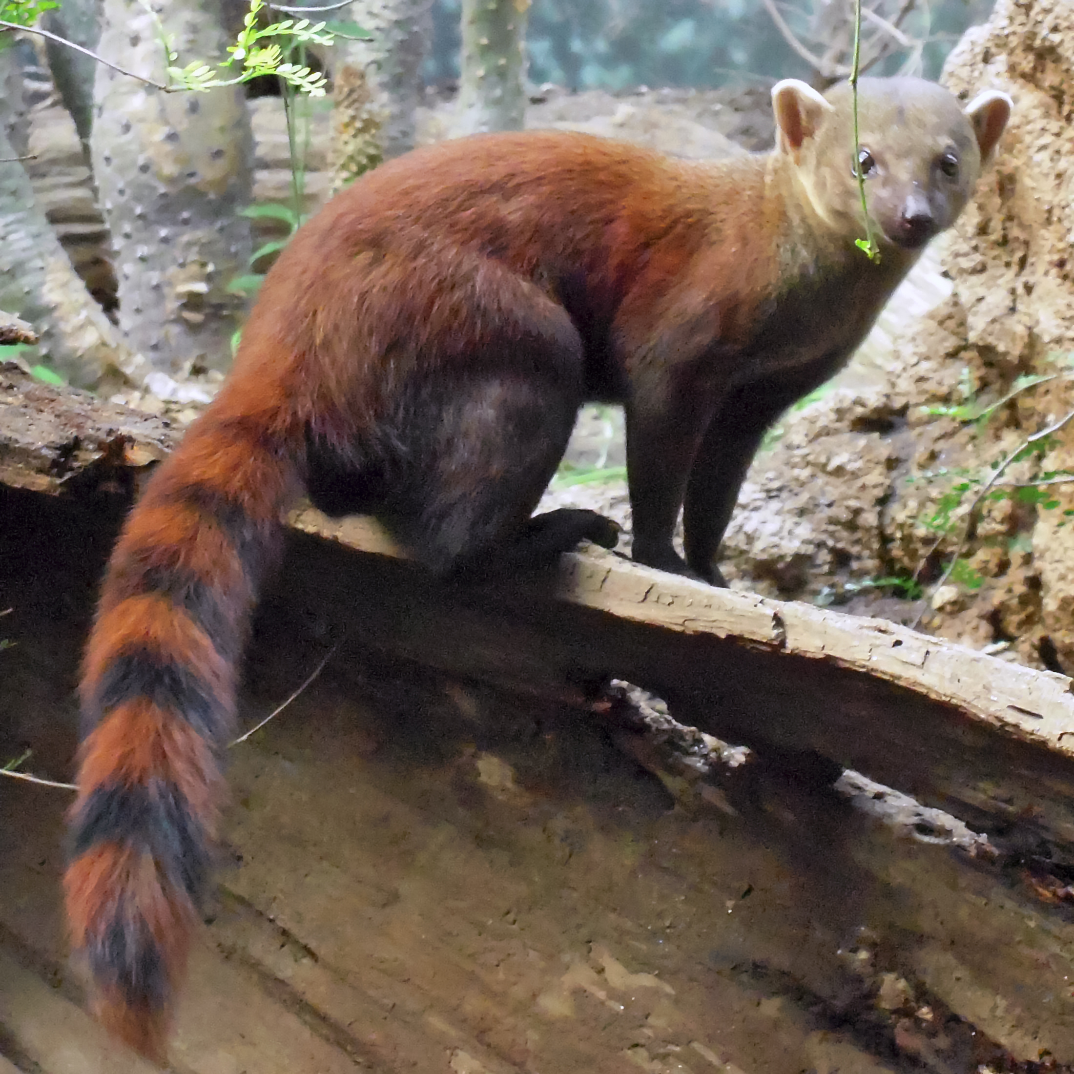 Ring-tailed mongoose, Galidia elegans, of Madagascar